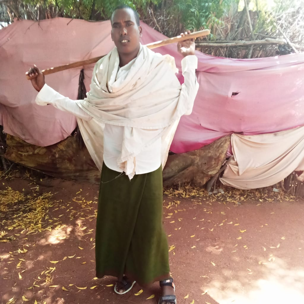 Somali cultural man wearing Somalia cloth and stick that represents the rich cultural of Ogaden subclan of darod. This is an image with the theme "Africa on the Move or Transport" from: Kenya